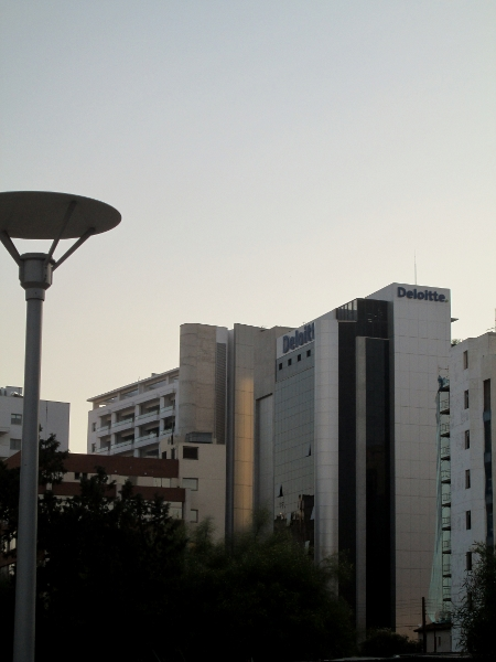 Skyscrapers Nicosia Cyprus